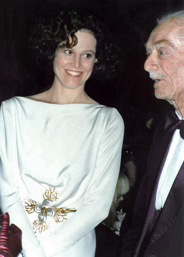 Sigourney Weaver with her father Pat Weaver 1989